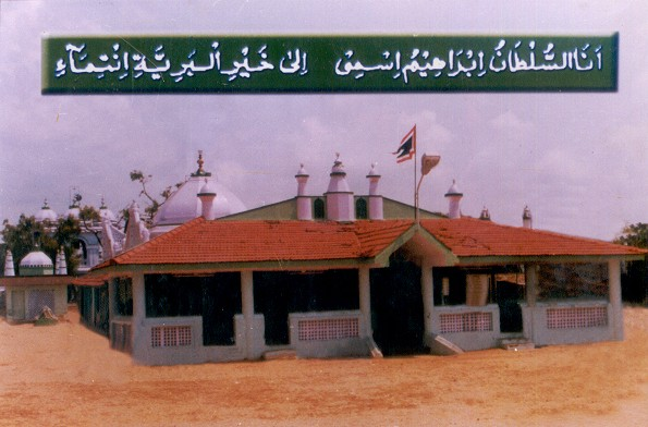 Erwadi main dargah